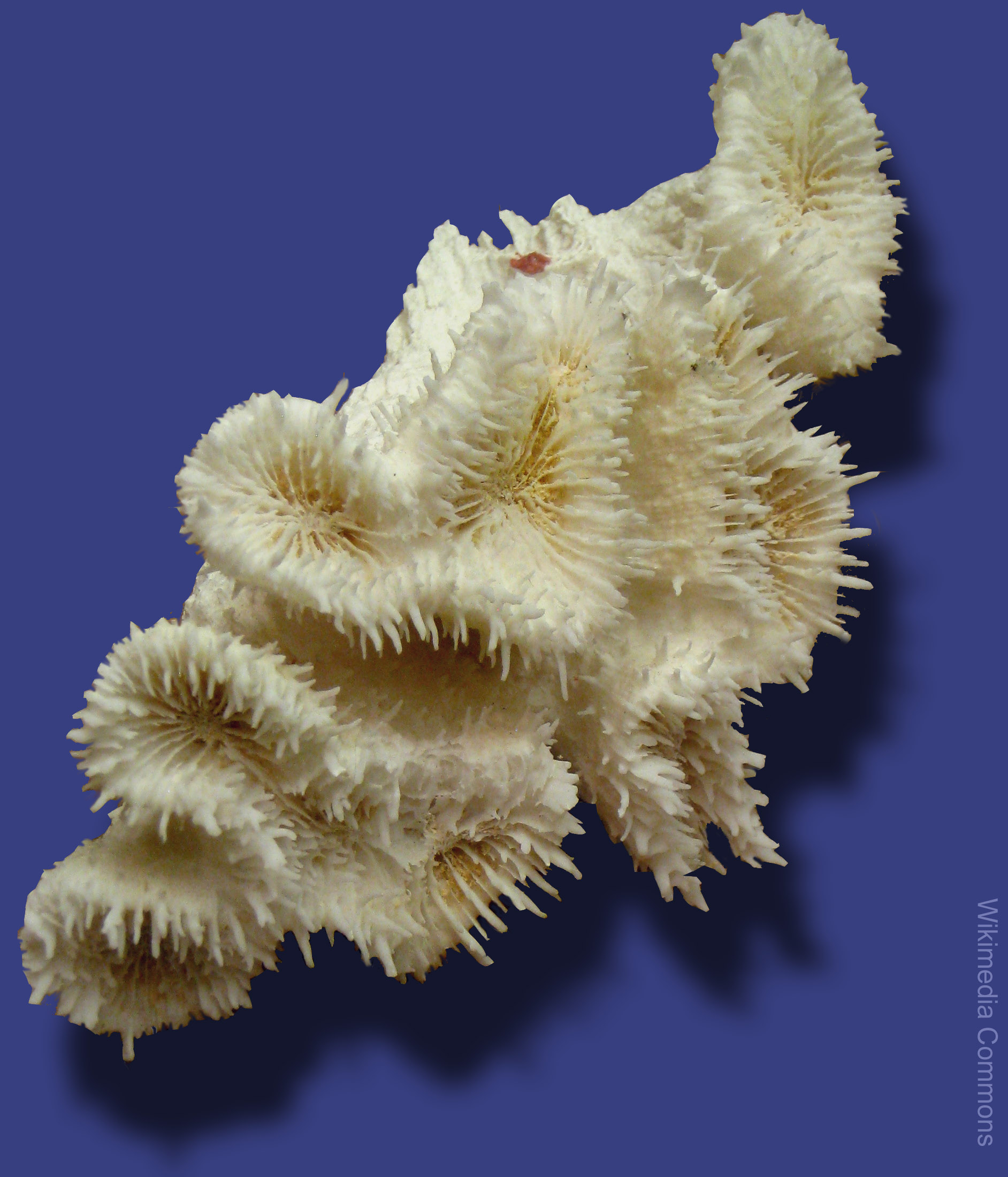 Lobed cactus coral (Lobophyllia corymbosa) in Museum of Science, Boston, Massachusetts, USA. Note that there was no prohibition against photography in the museum.